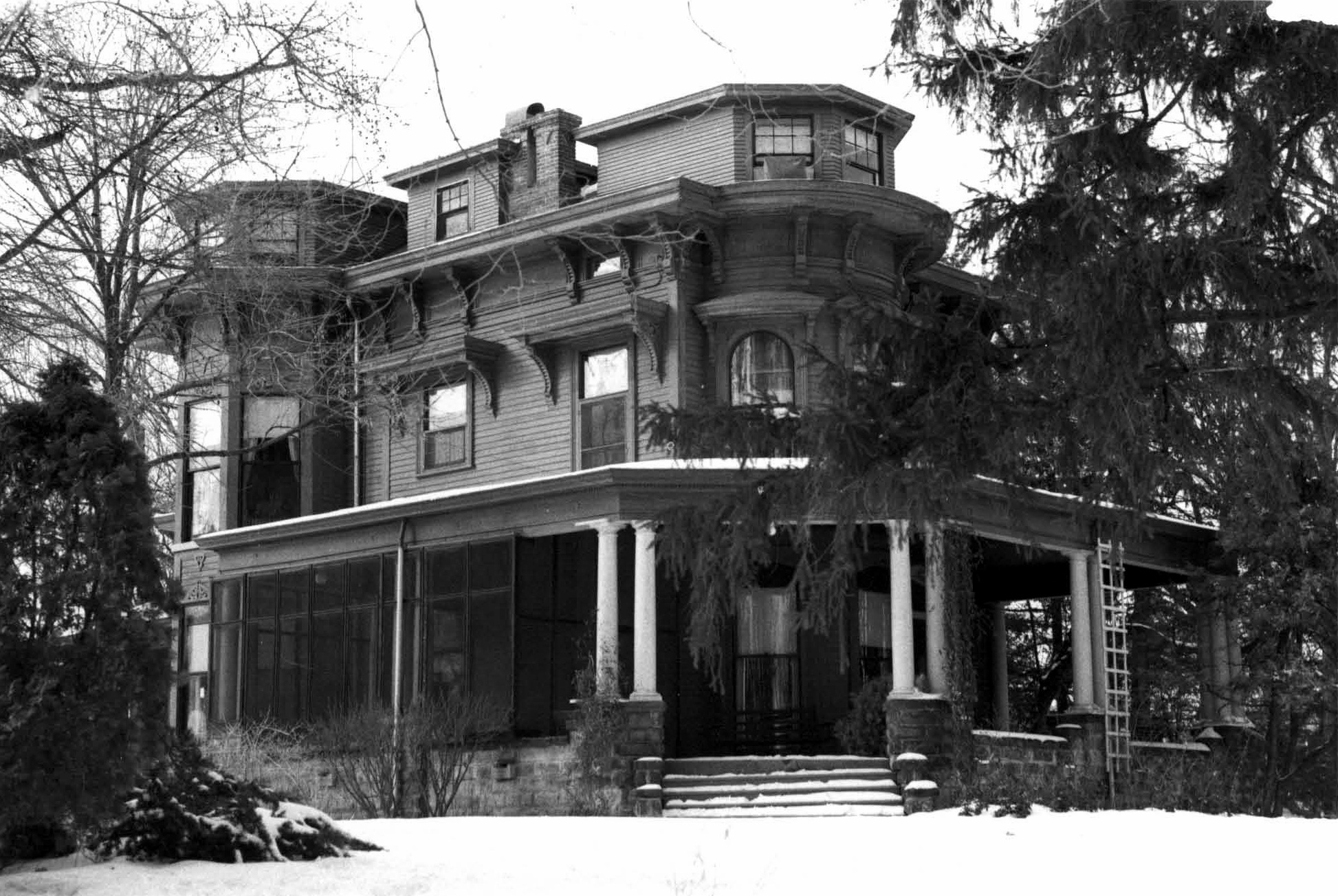 The historic Charles Starker House (built ca. 1868), located at 101 Clay Street in Burlington, Iowa, United States, is a component of the Starker–Leopold Historic District. The historic district is listed on the US National Register of Historic Places.